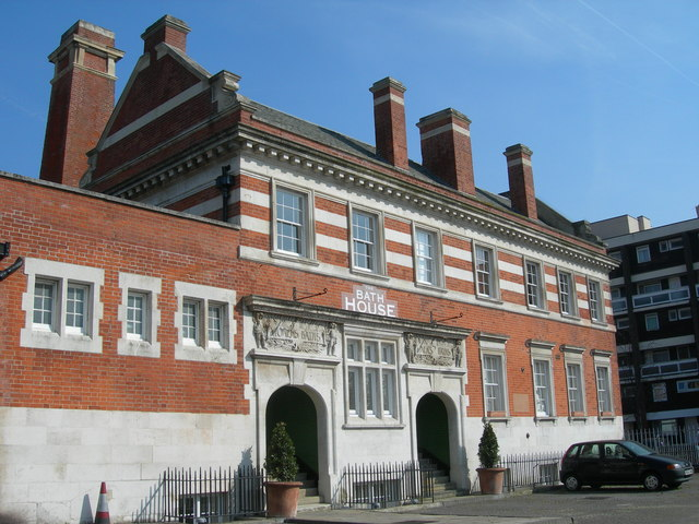 The Bath House, Cheshire Street Once a public bathing facility, an essential amenity when many dwellings had no internal bathroom. Now it is home to an amateur boxing club , another important amenity in an area with higher than average youth unemployment and social exclusion.